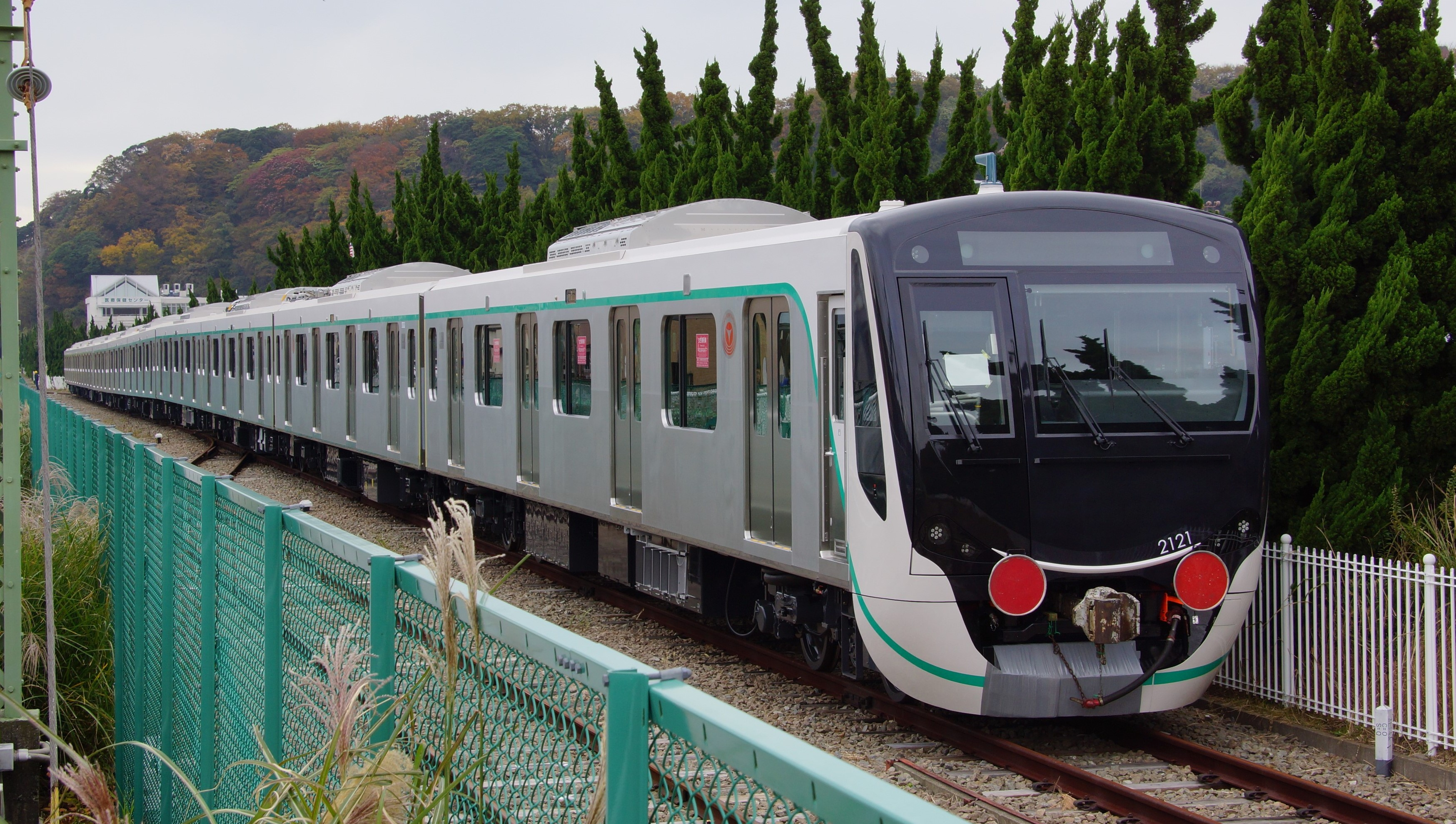 The first Tokyu 2020 series 10-car EMU, set 2121, parked next to Jimmuji Station on the Keikyu Zushi Line, on delivery from the J-TREC factory in Yokohama